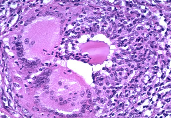 When thyroid colloid is extravasated from thyroid follicles and comes into contact with connective tissue a foreign body giant cell reaction occurs. This can occur as the result of thyroidoitis, trauma and needle biopsy.